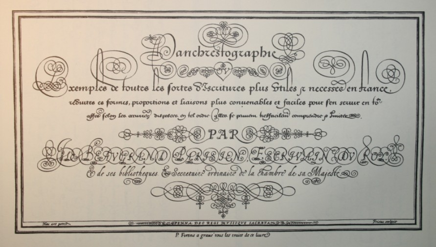 Calligraphy example by Beaugrand (title)